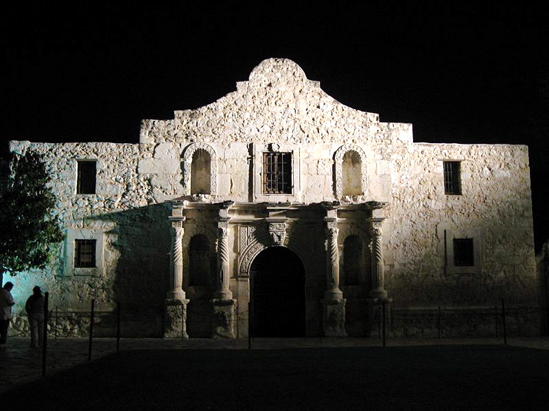 Battle of the Alamo 172nd Anniversary. San Antonio, Texas.